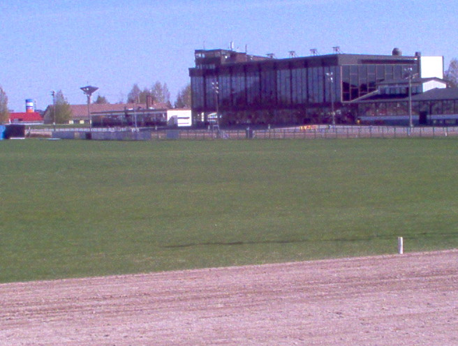 Seinäjoki trotting track.